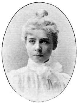 Image scanned from the book "Svenskt Porträttgalleri XX - Arkitekter, Bildhuggare, Målare m.fl. " ("Swedish Portrait Gallery XX - Architects, Sculptors, Painters, ") published 1901